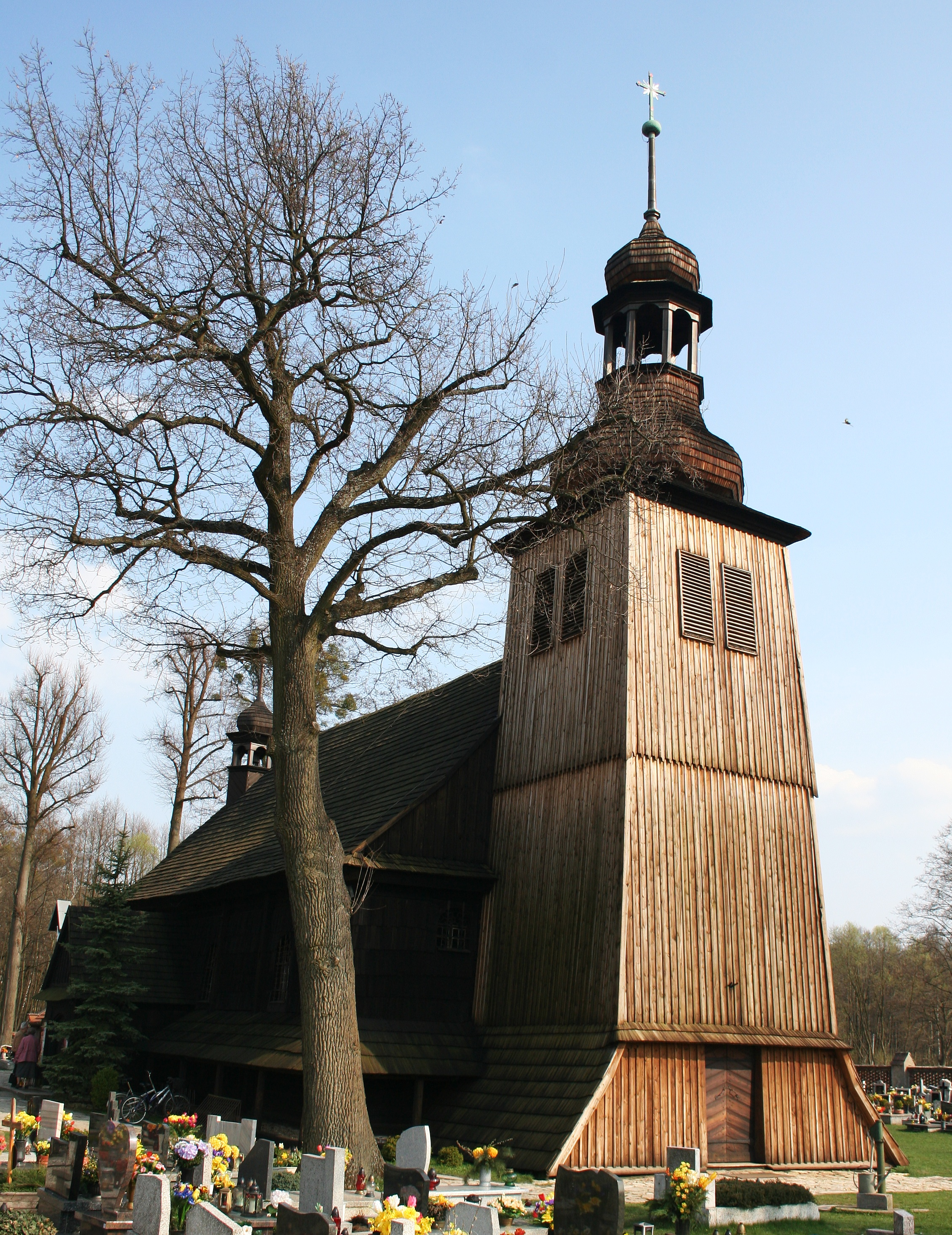 Holy Trinity church in Koszęcin, Poland